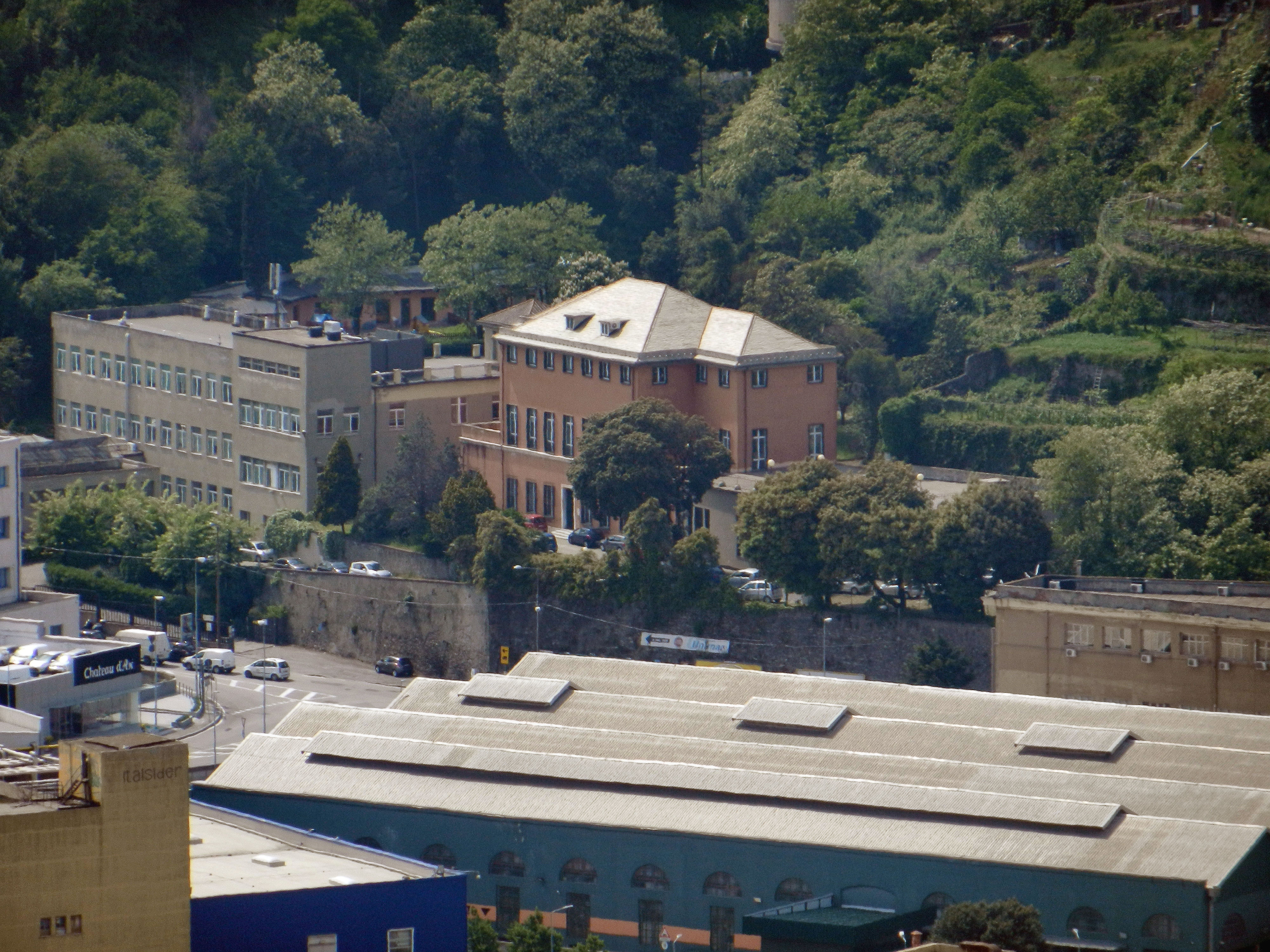 Genoa (Italy), quarter of Campi, Brignole Balbi palace